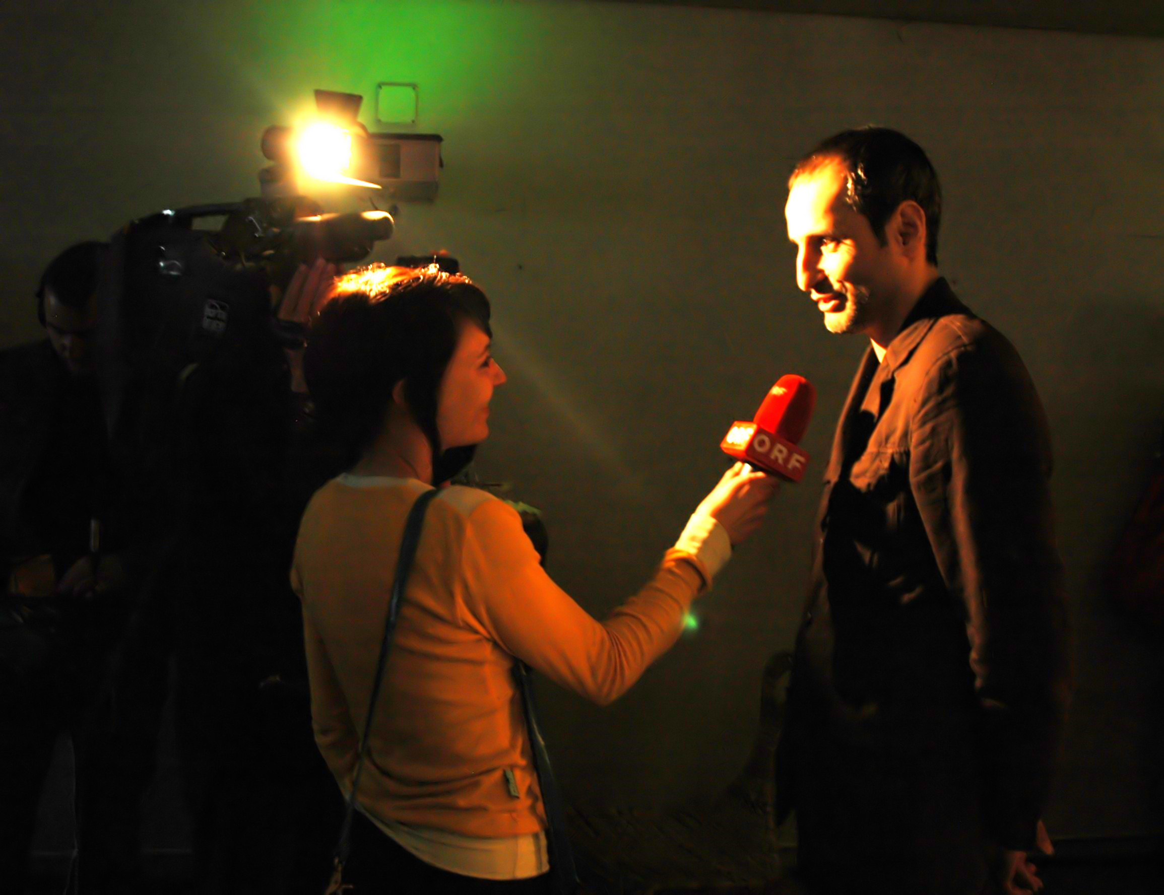 Alexei Petrowitsch Popogrebski (russian: Алексей Петрович Попогребский) at the opening of the Crossing Europe Filmfestival in Linz, Austria, 2010